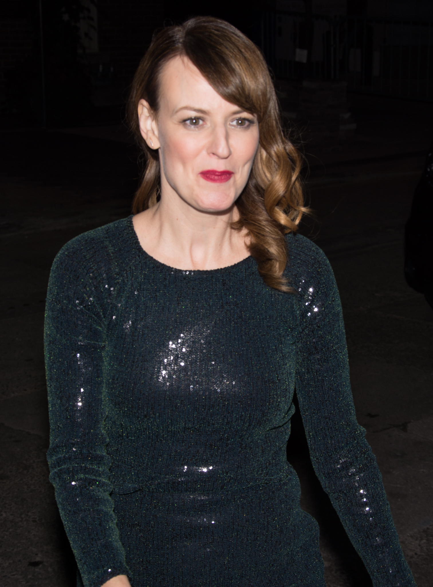 Actress Rosemarie DeWitt arriving for the Hollywood Foreign Press Association & InStyle's 2014 TIFF Celebration